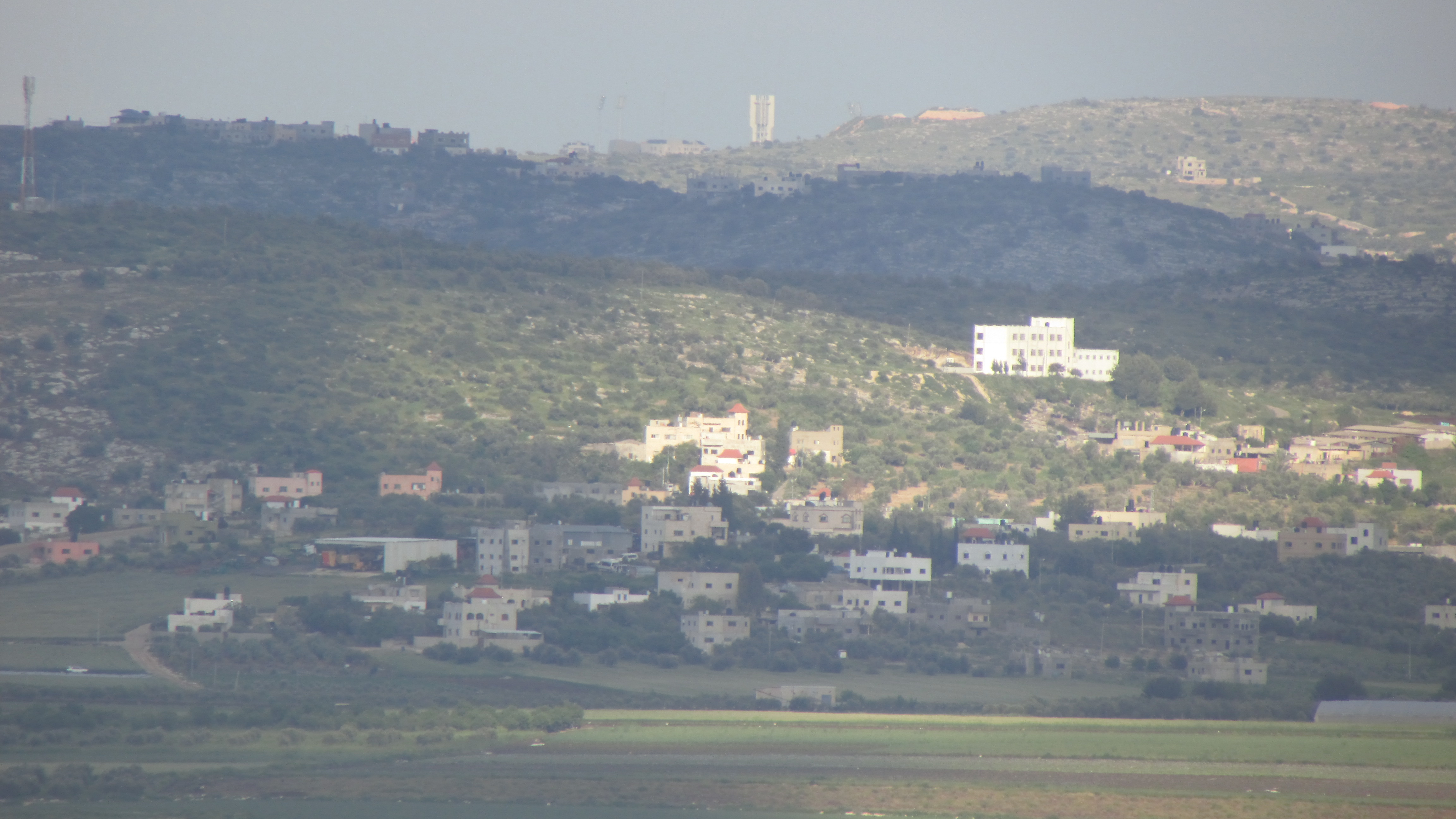 Bir al-Basha from Meoz Tzvi in the west